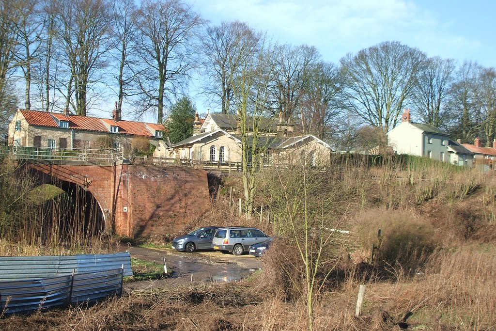 Huttons Ambo railway station (site), YorkshireOpened in 1845 by the York & North Midland Railway on its line from Scarborough to York, the station closed to passengers in 1930. View north west from the road.